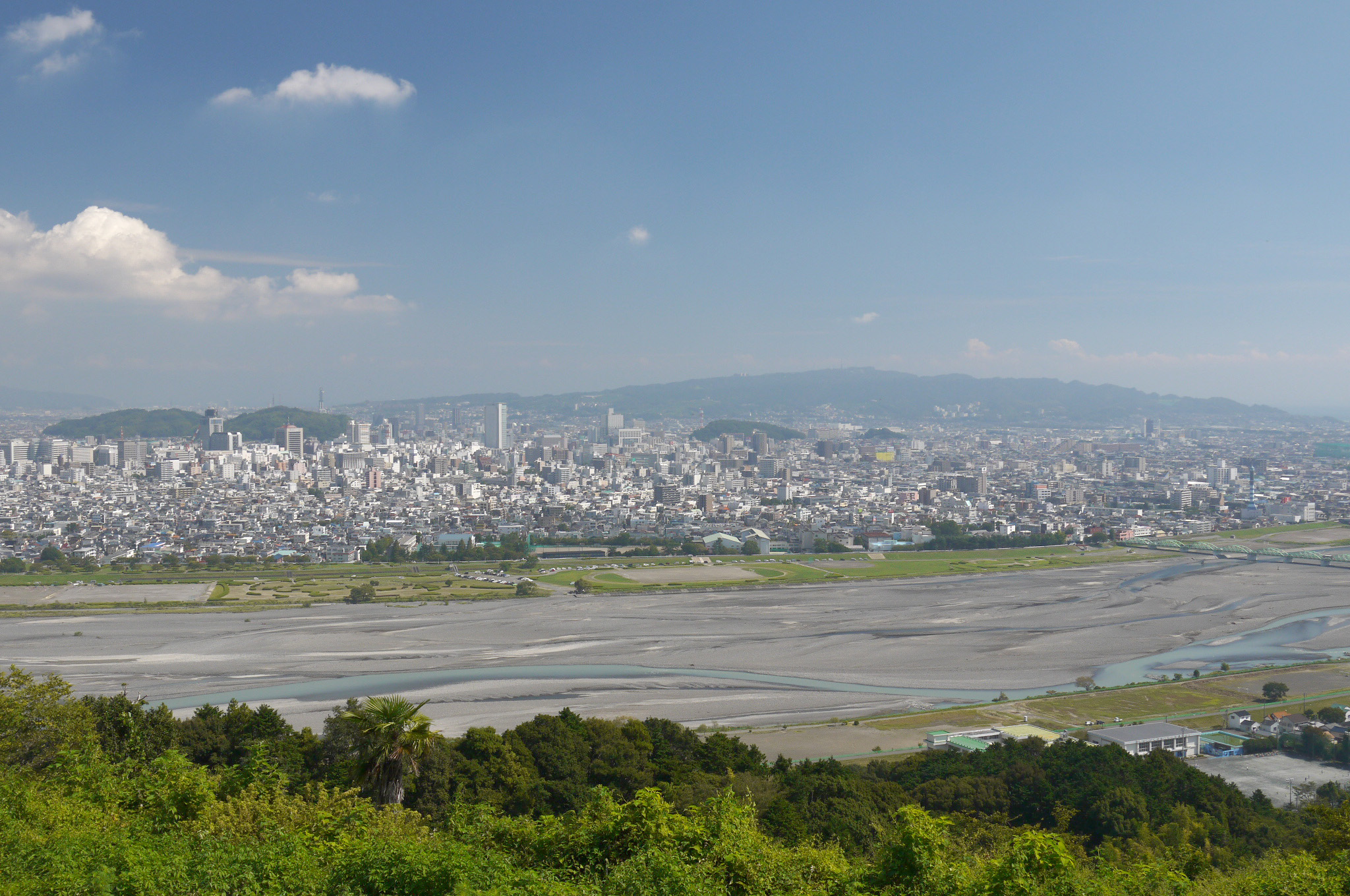 Downtown of Shizuoka and Abe River.